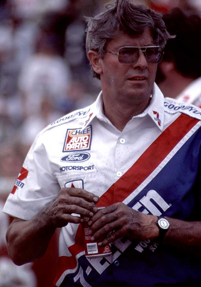 Former NASCAR owner and pit crew member Leonard Wood. Photo by Ted Van Pelt